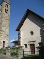 L'antica chiesa di San Nicolò dalla via Roma